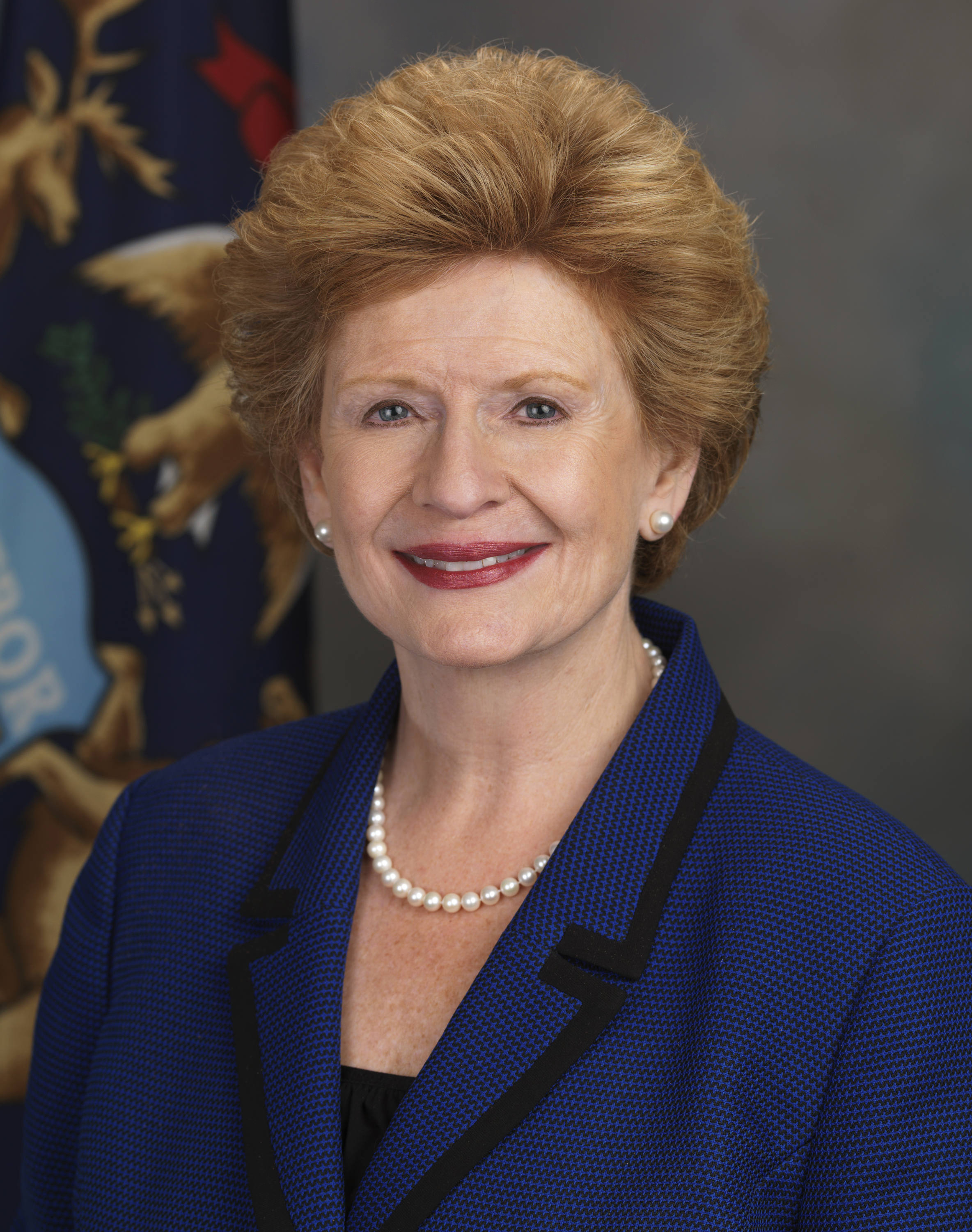 Official portrait of United States Senator Debbie Stabenow (D-MI).